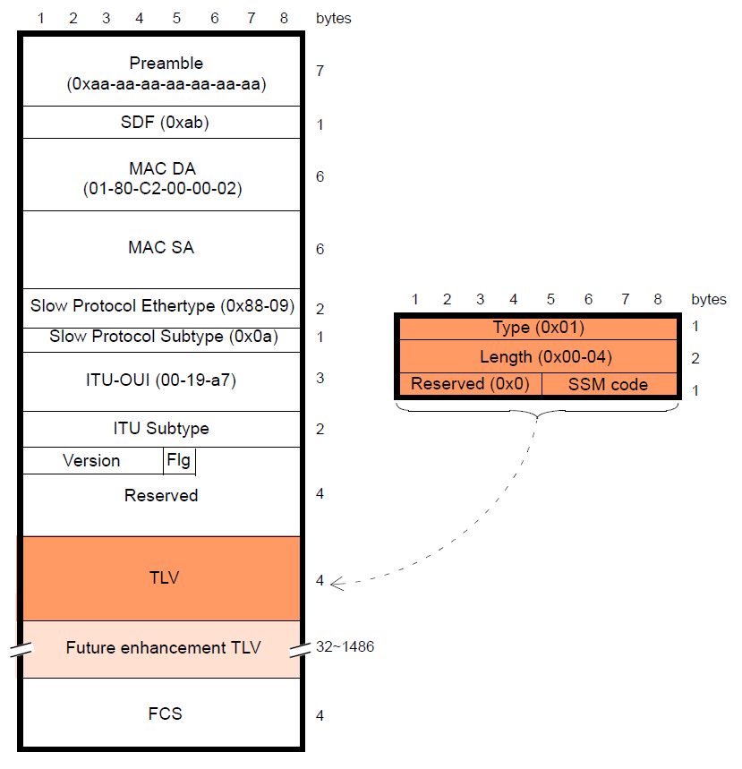 SyncE ESMC fields